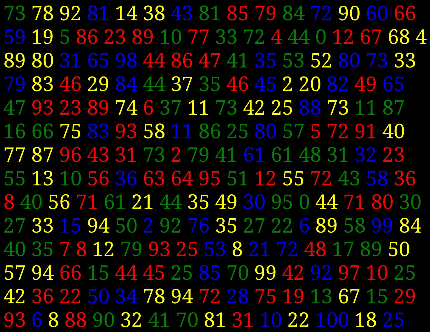 This image viewed on a smartphone can appear like the coloured numbers are floating at different depths behind the screen, with the different colours appearing to be at specific depths. If you needed glasses and are near-sighted the effect might be much more pronounced with your glasses on.